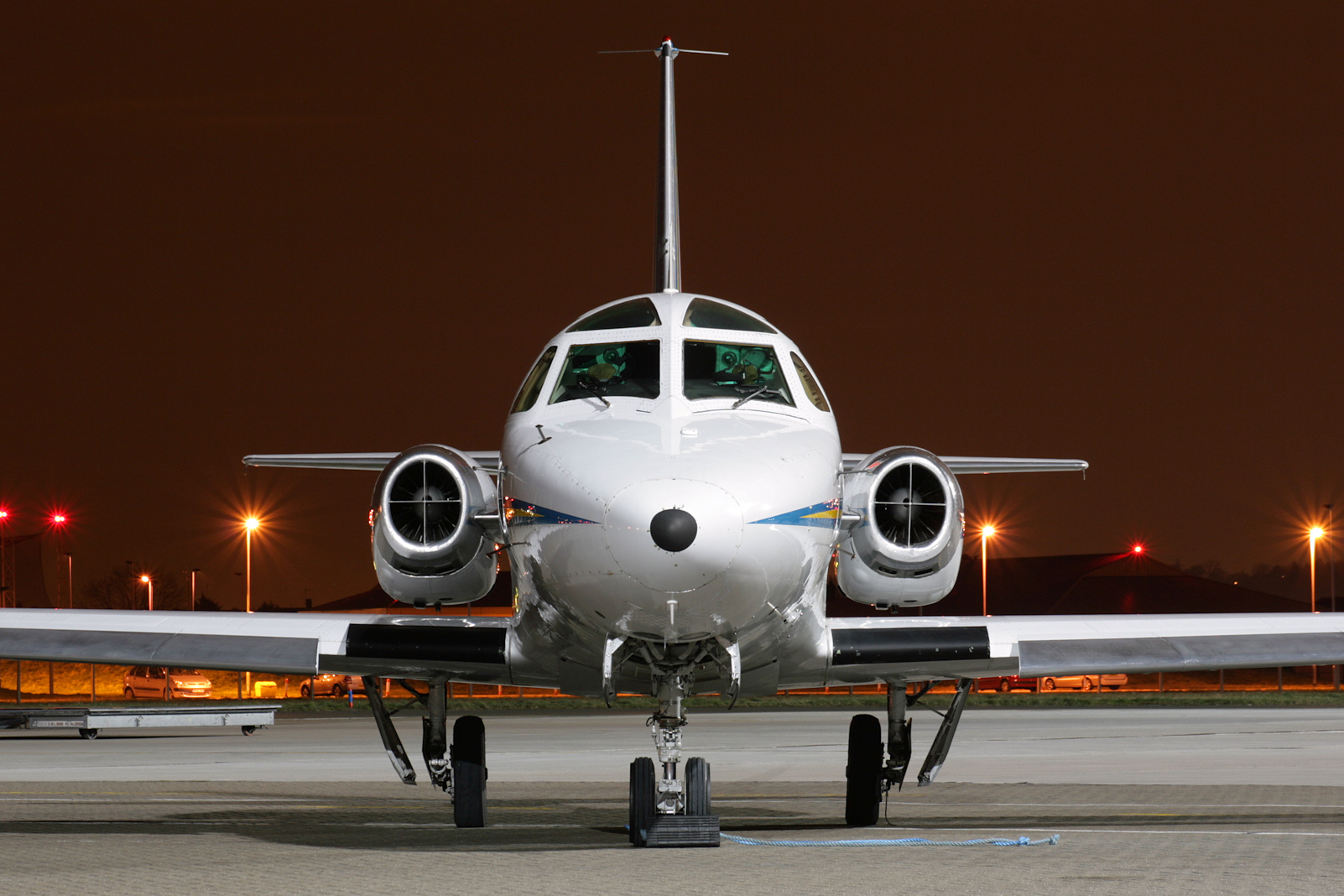 North American Sabreliner 40 of the Swedish Air Force Test Centre. Photographed at the RAF Northolt Nightshoot XIV on 14 March 2013, RAF Northolt, United Kingdom. Known as Tp 86 in Swedish Air Force service. Military serial number is 86001. Manufacturer serial number is 282-49.